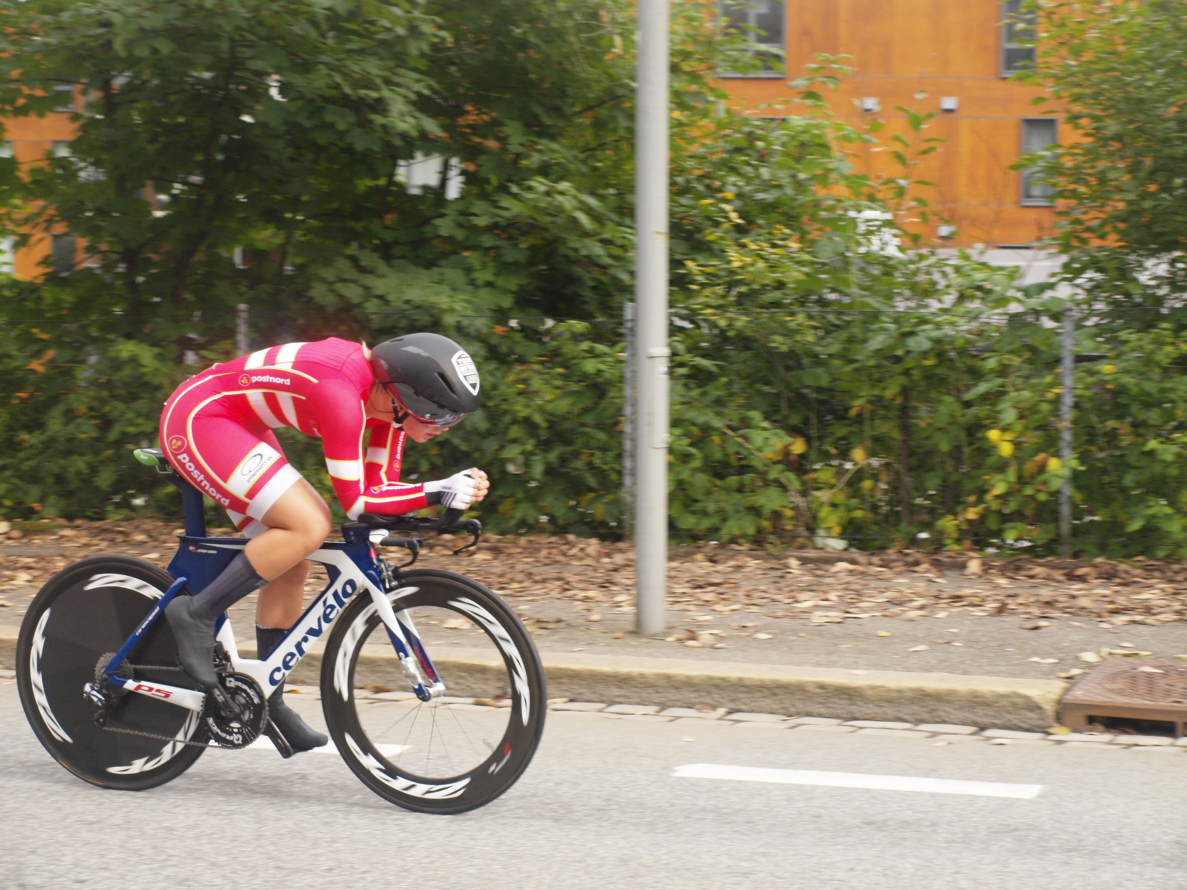 Emma Nørsgaard Jørgensen at the 2017 UCI World Championships